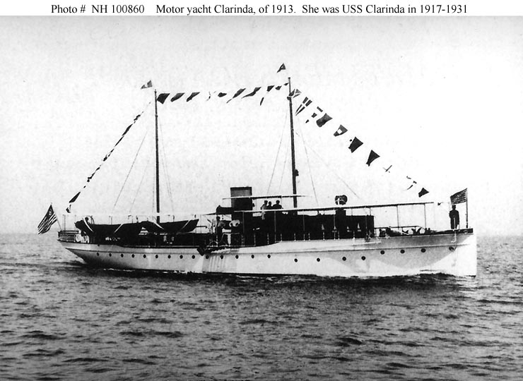 Motor yacht Clarinda probably shortly after completion, prior to her United States Navy service as patrol vessel USS Clarinda (SP-185)